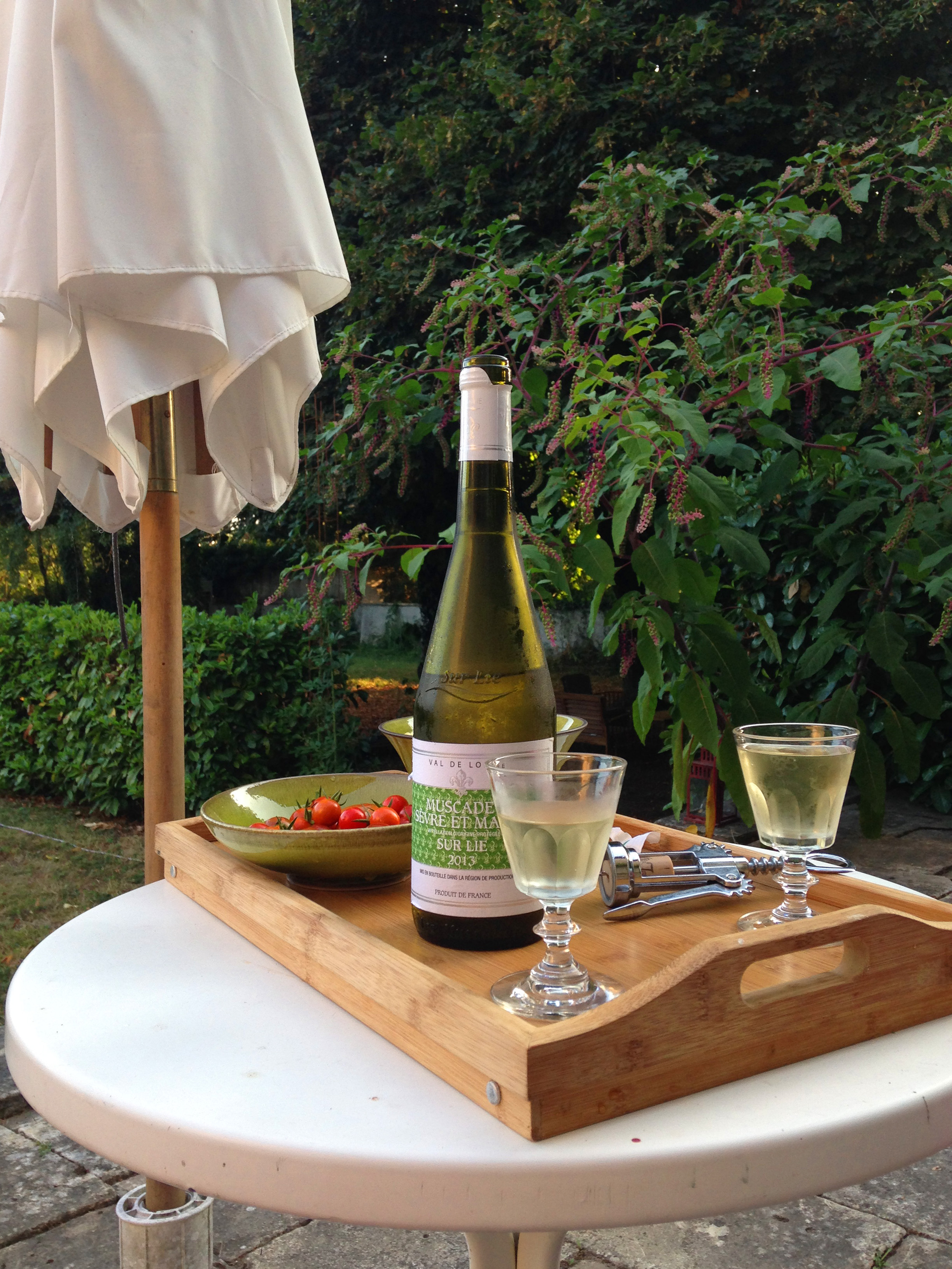 French white wine during pre-dinner drink during summer.